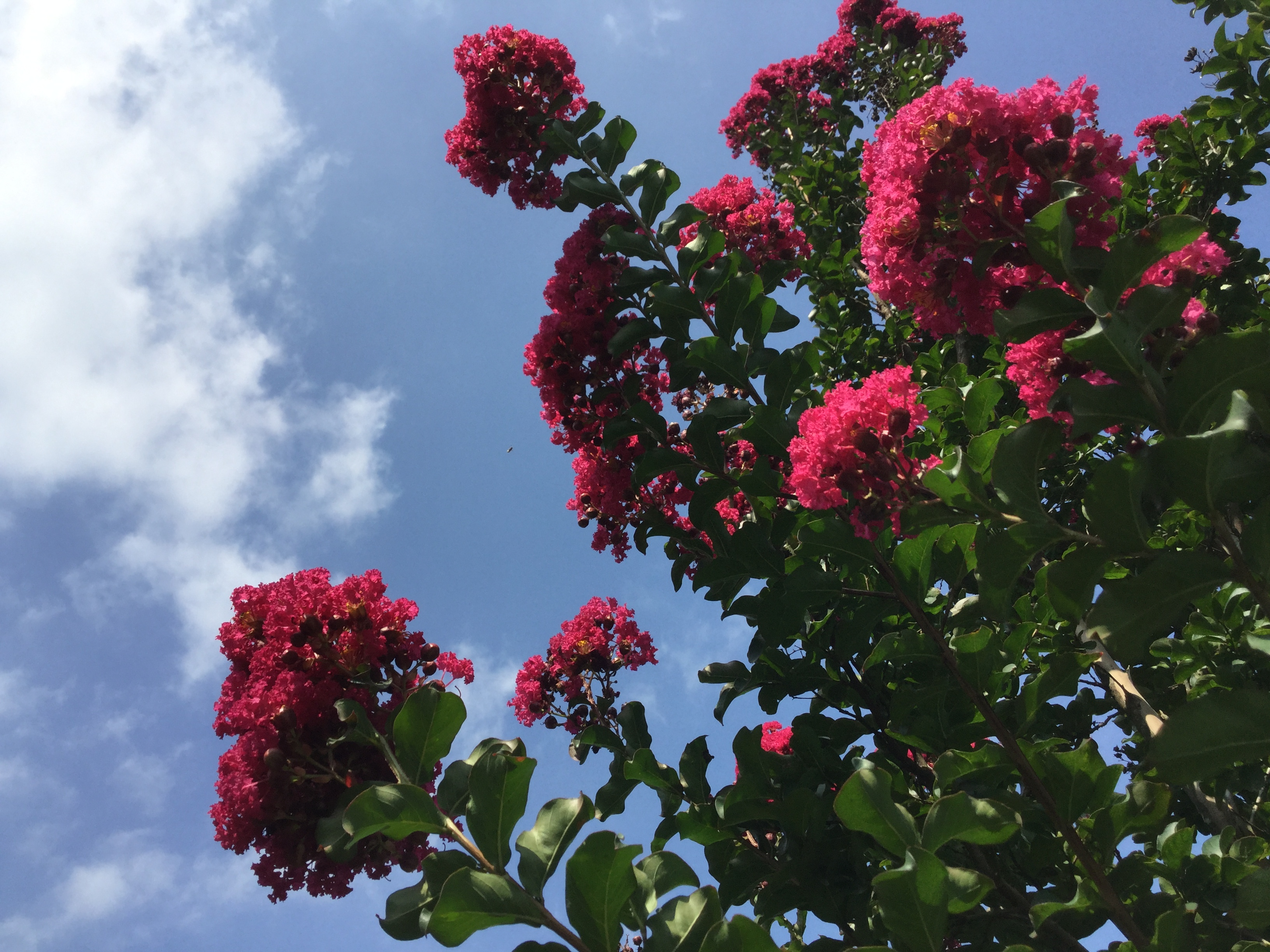 Hot Pink crapemyrtle in Eastern Oklahoma.